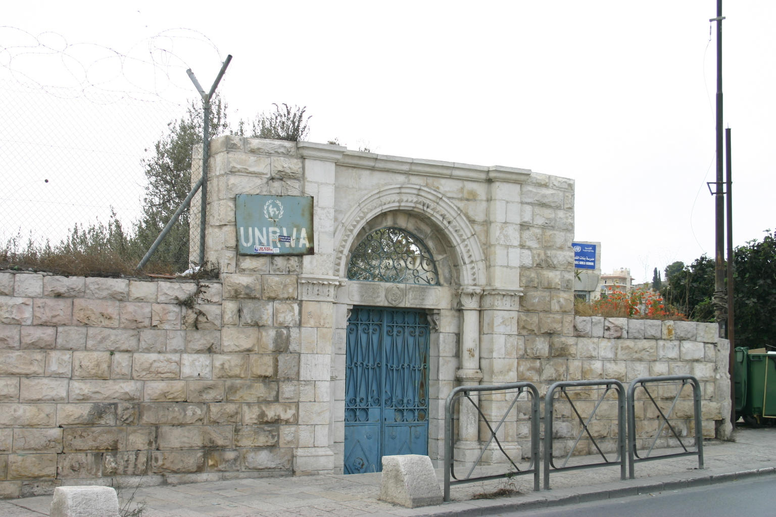 UNRWA, Jerusalem 2007